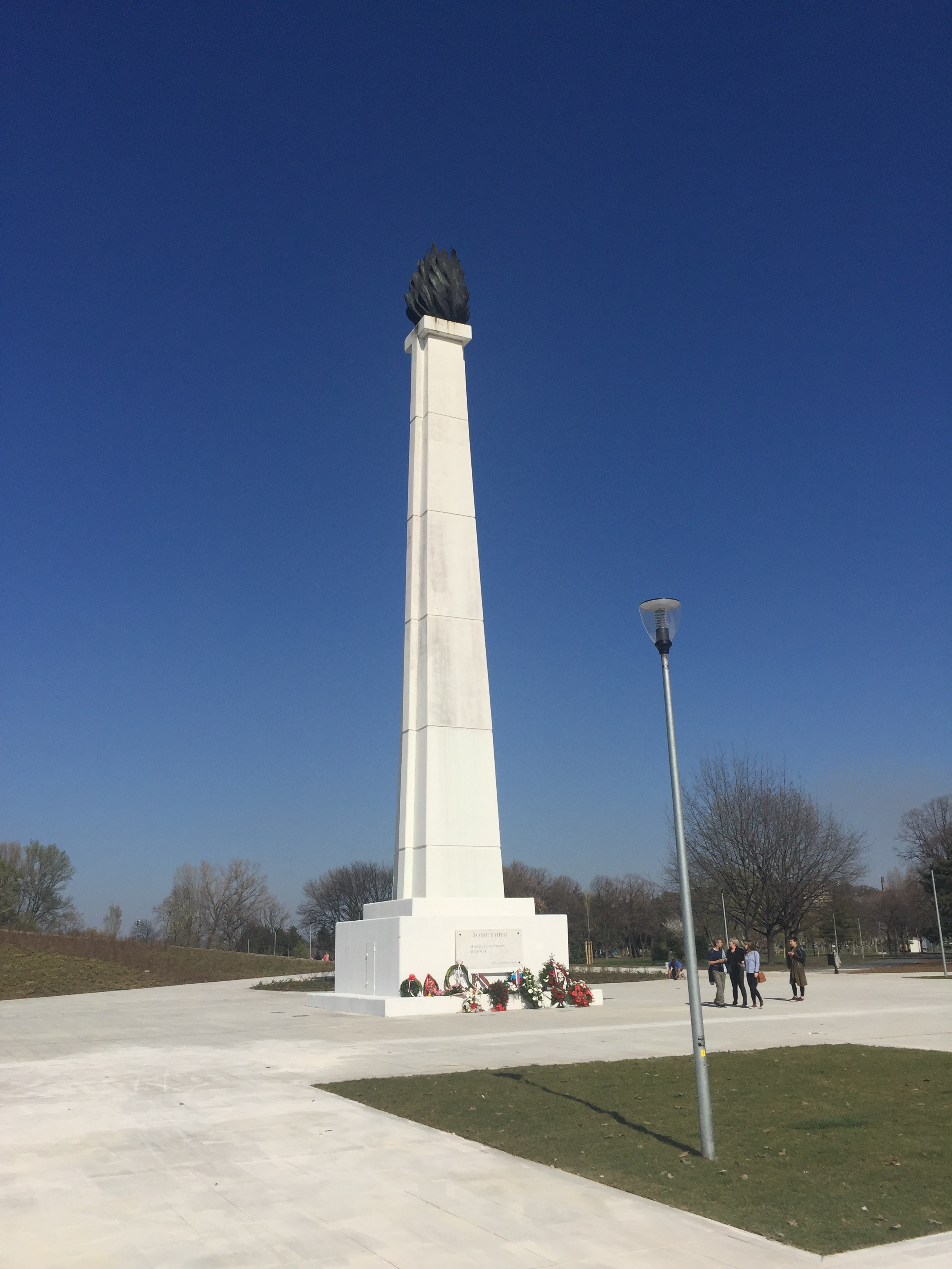 The Eternal Flame monument in the Park of Friendship in New Belgrade following renovation in 2019. The monument erected in 2000 is dedicated to victims of the NATO intervention in Yugoslavia in 1999.